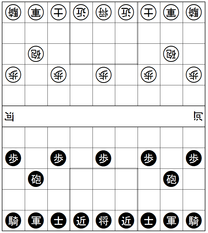 Board setup of Kawanakajima shogi